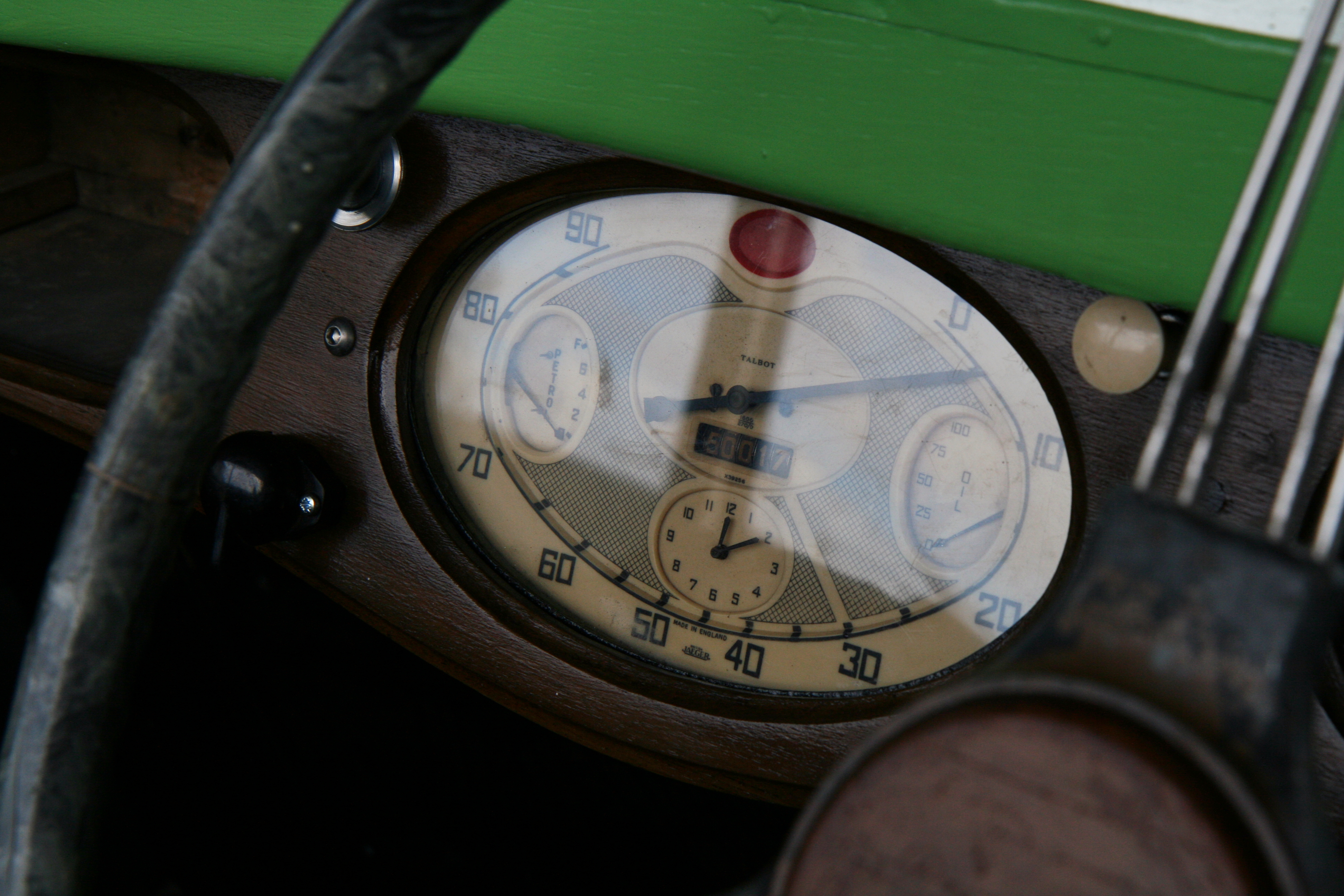 Talbot speedo by Jaeger